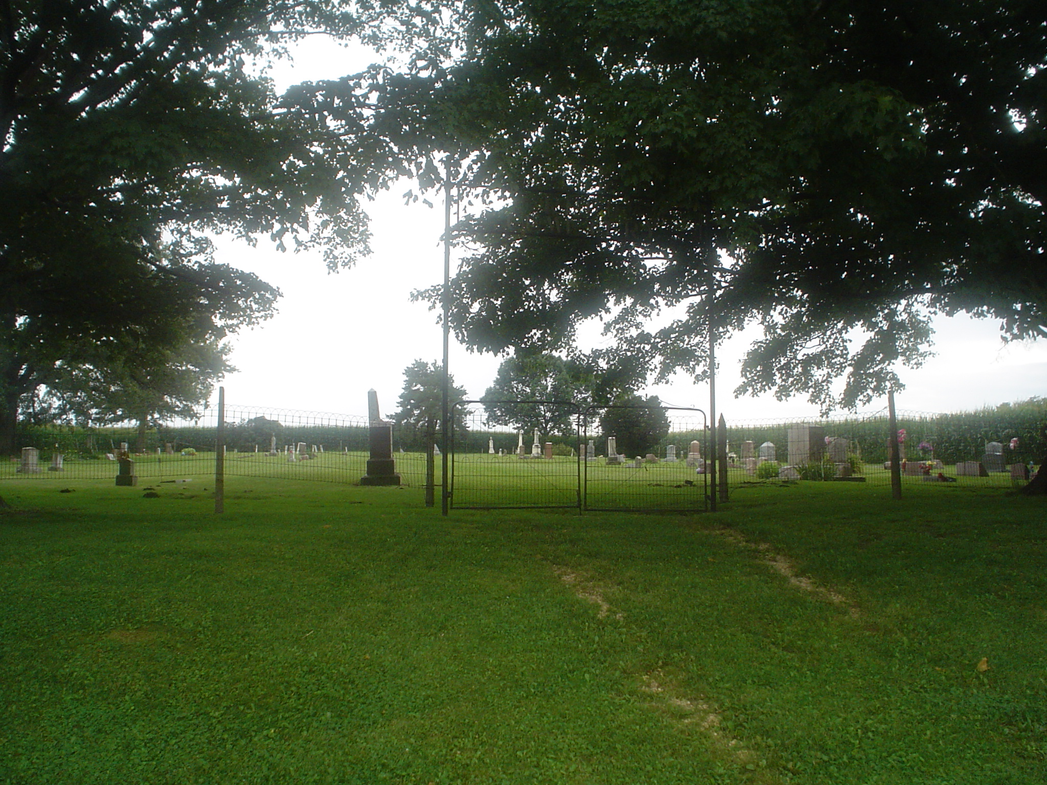 Reed Cemetery southwest of Polo, Illinois, USA in Buffalo Township.